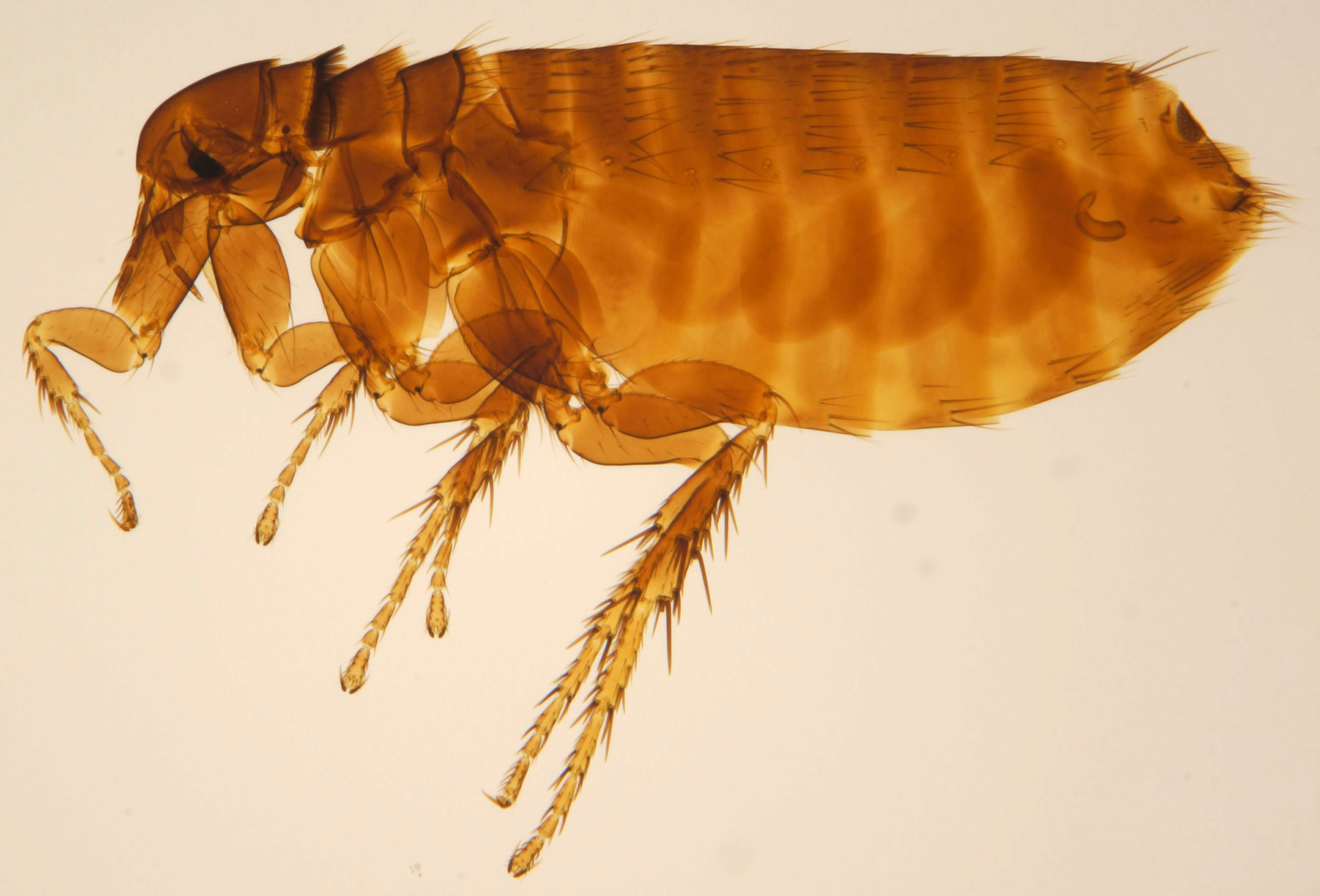 Ceratophyllus gallinae female